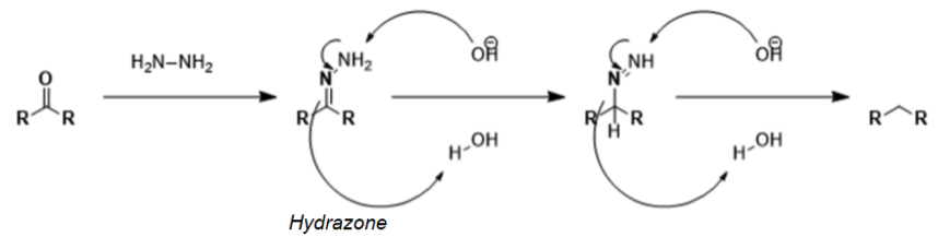 Mechanism of Wolff-Kishner reduction